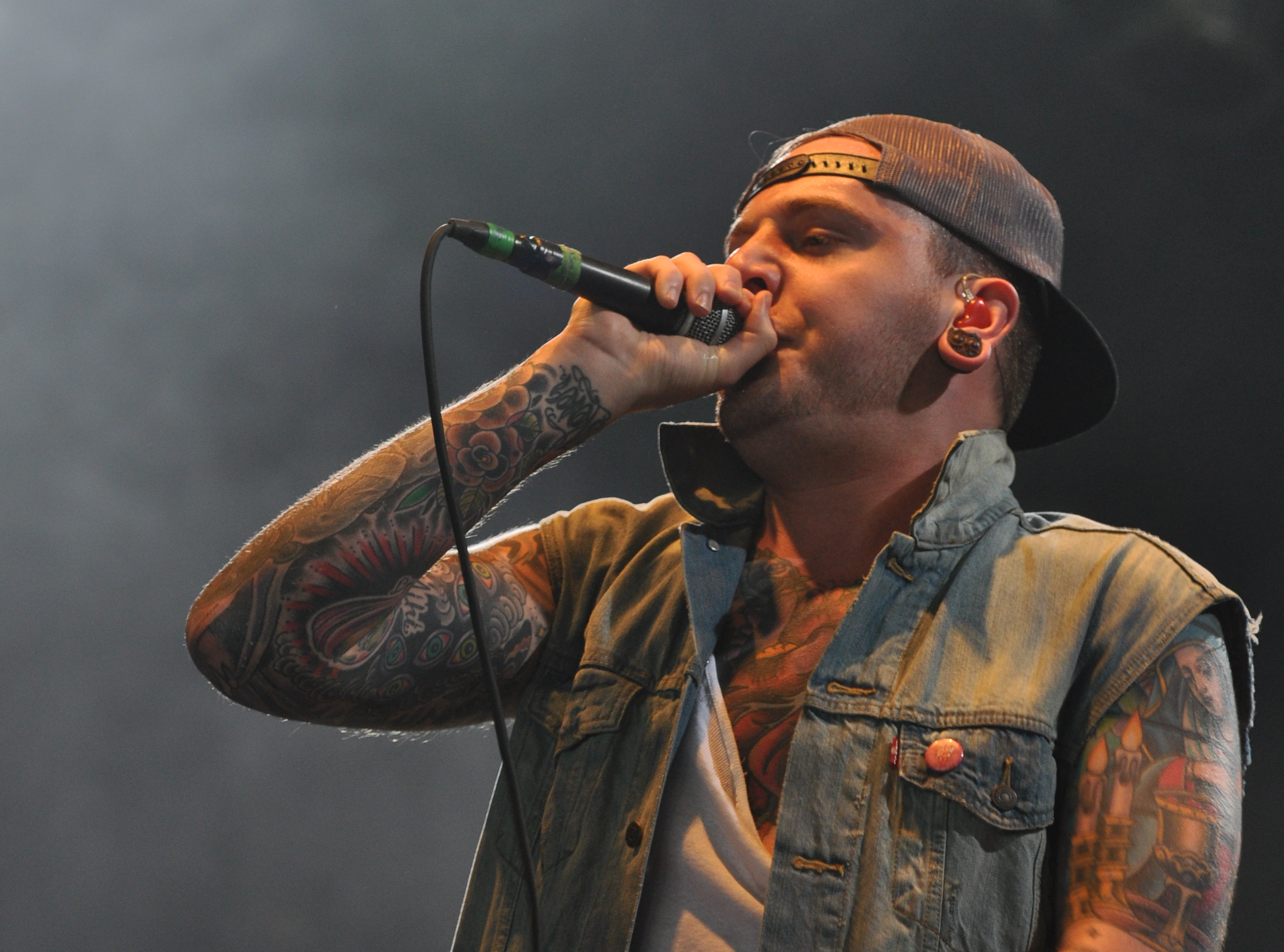 Chelsea Grin at Groezrock 2013